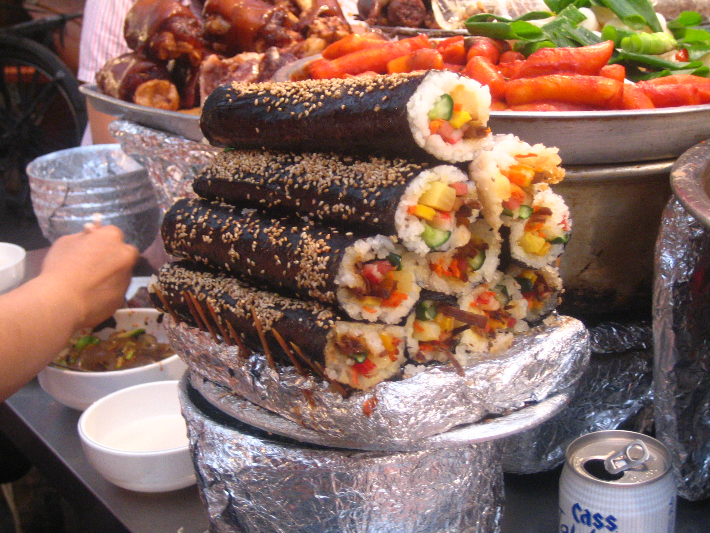 Korean snacks on the food stall, Kimbap